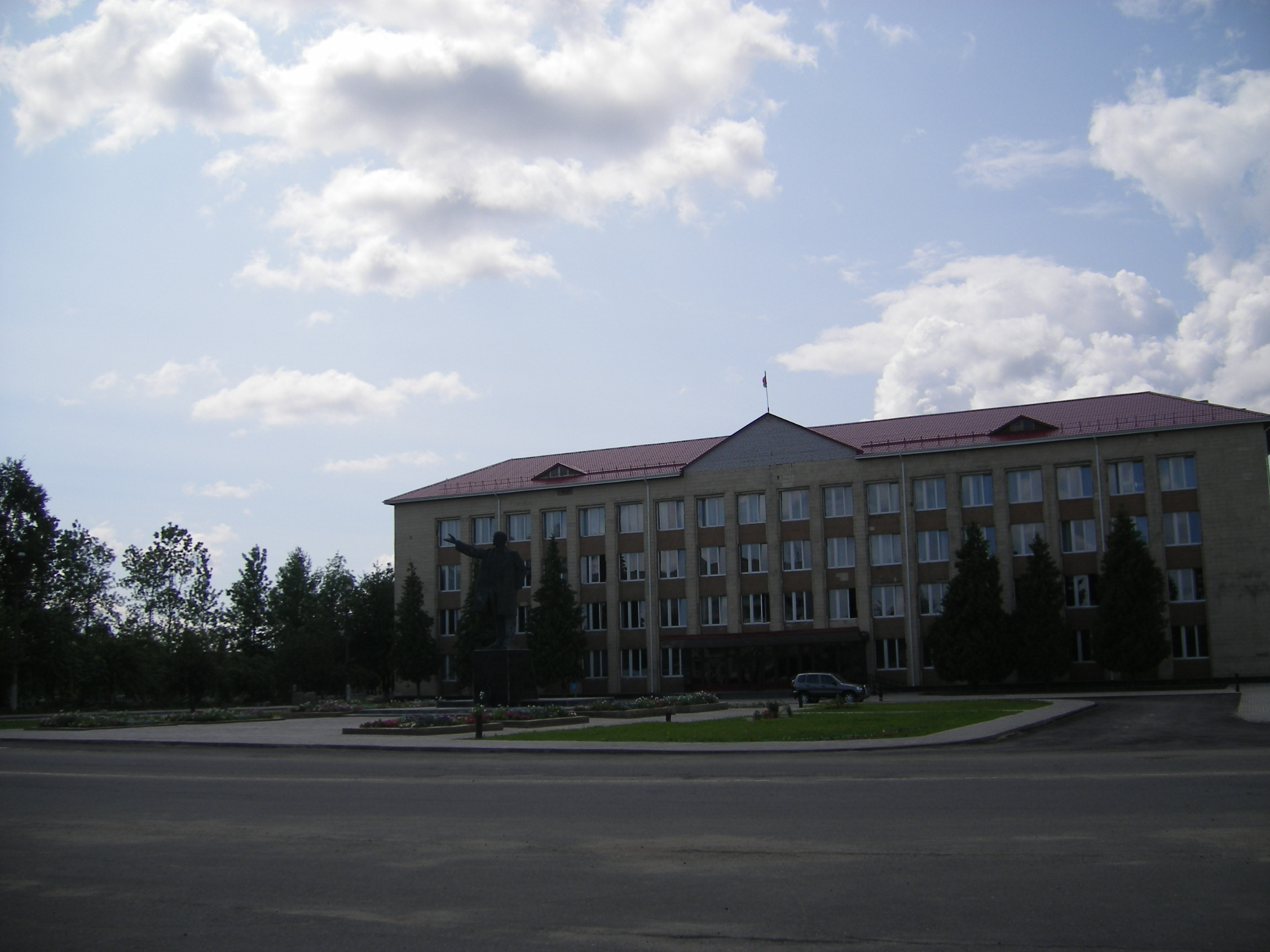 Shumilina, Raion Administration Building